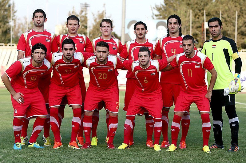 Football match between Jordan national football team and Syria national football team in Shahid Dastgerdi Stadium, Tehran (neutral field). 2015 AFC Asian Cup qualification.